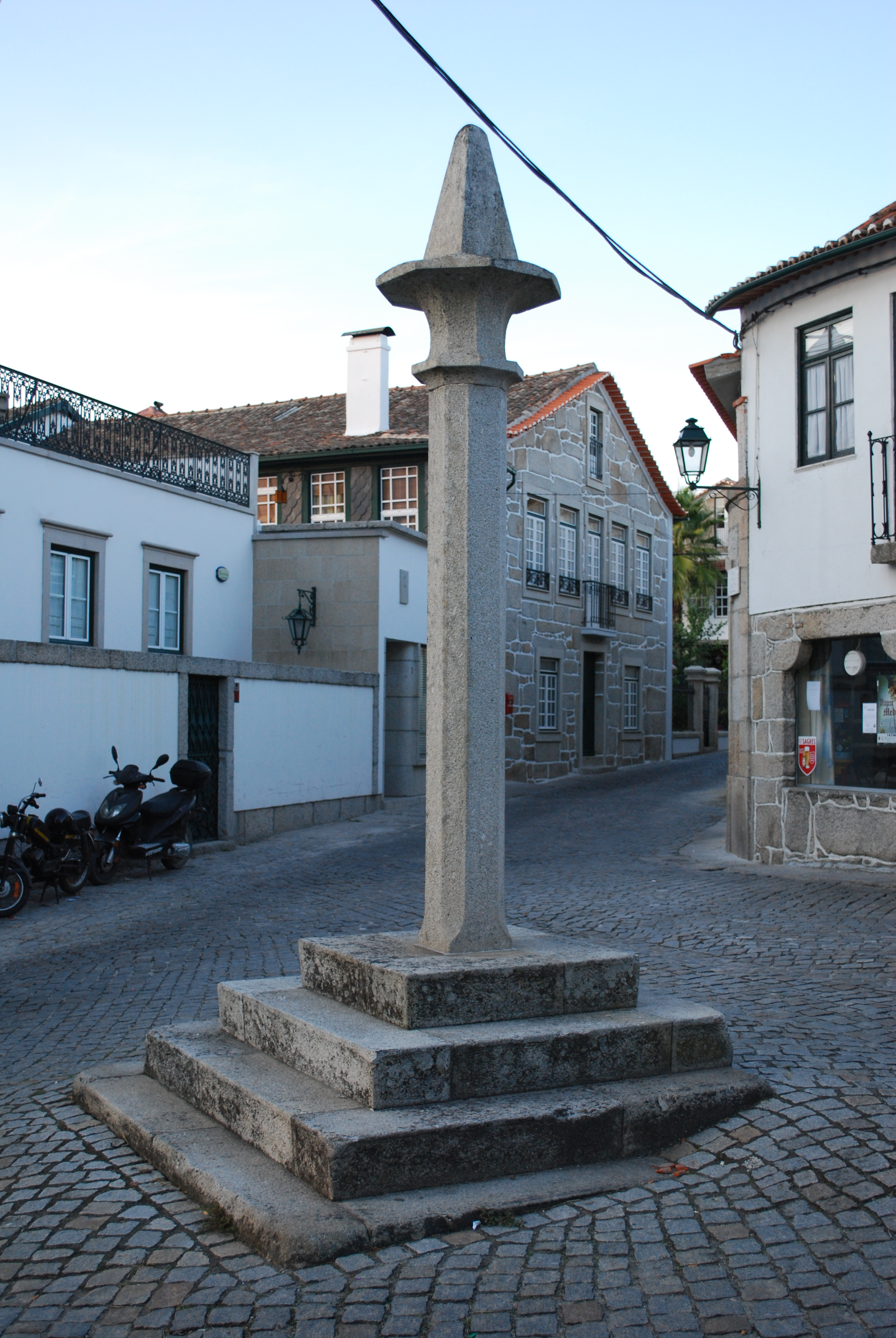 This file was uploaded for Wiki Loves Monuments in Portugal with the unique identifier 72156.